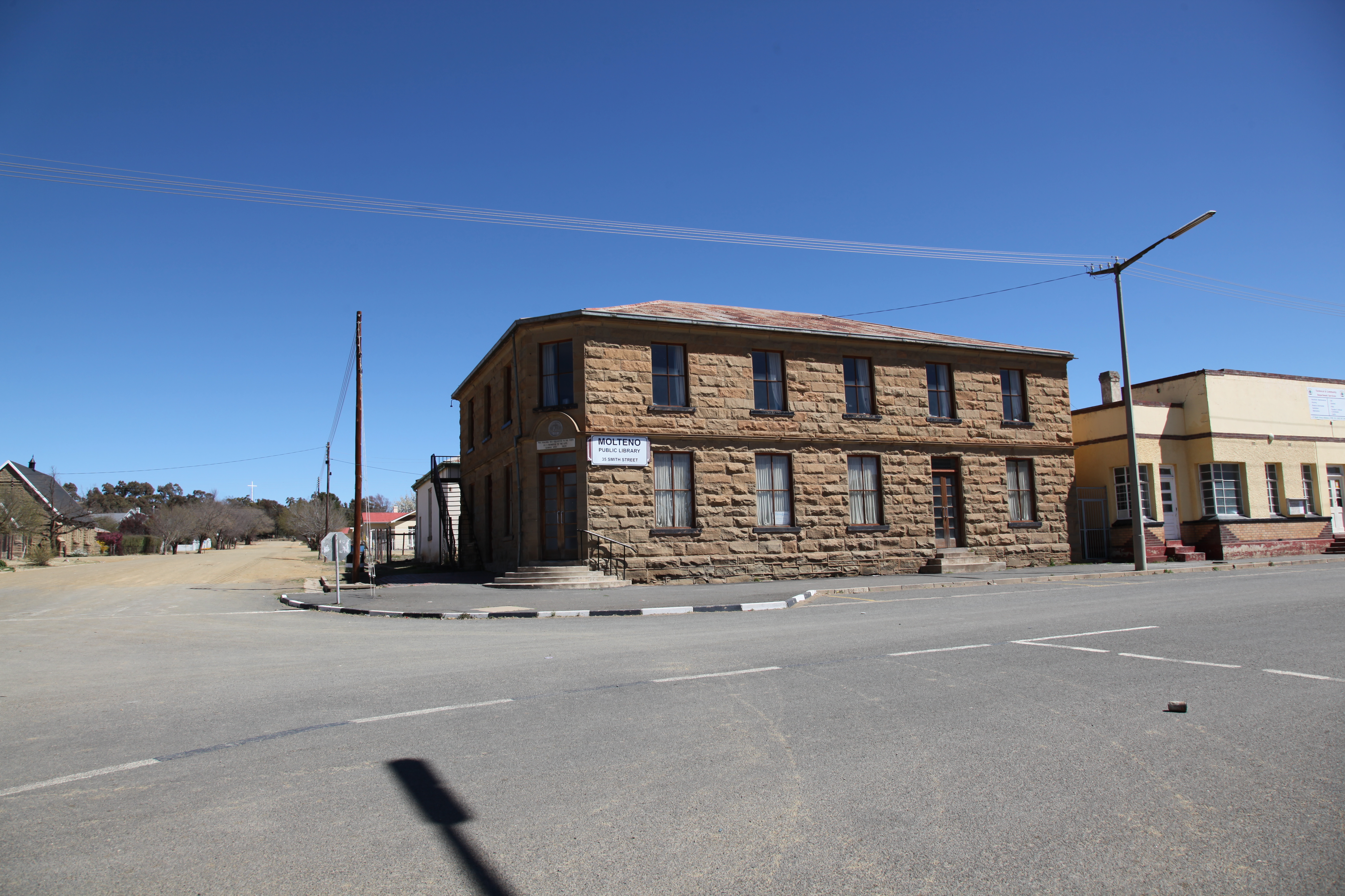 Street in Molteno - Eastern Cape - South Africa